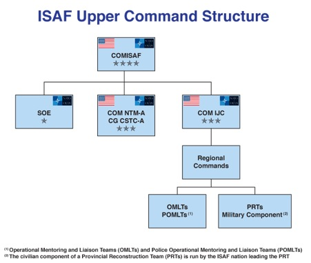 Chart of ISAF higher command structure from Aug-September 2009